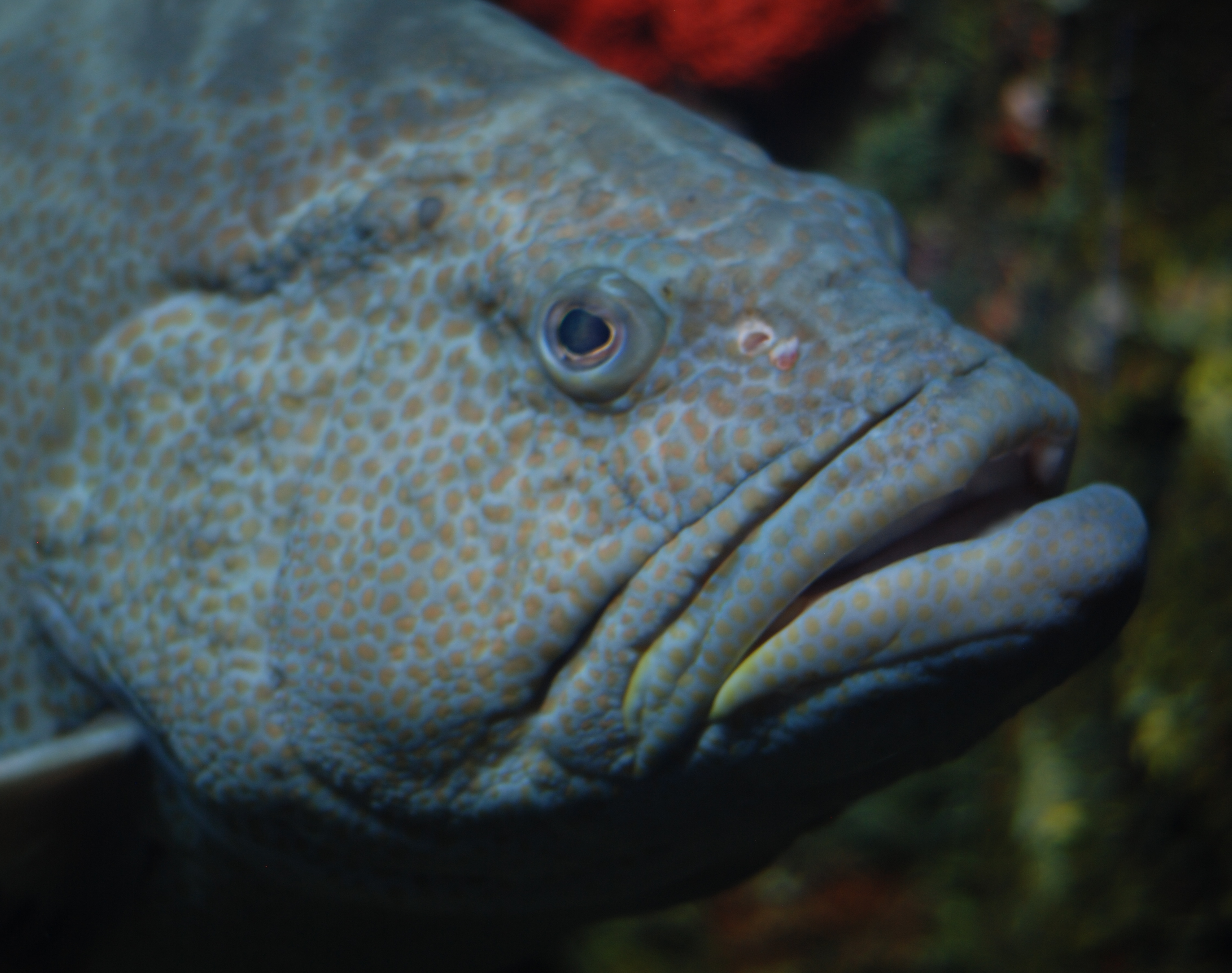 Mycteroperca bonaci in National Aquarium in Baltimore